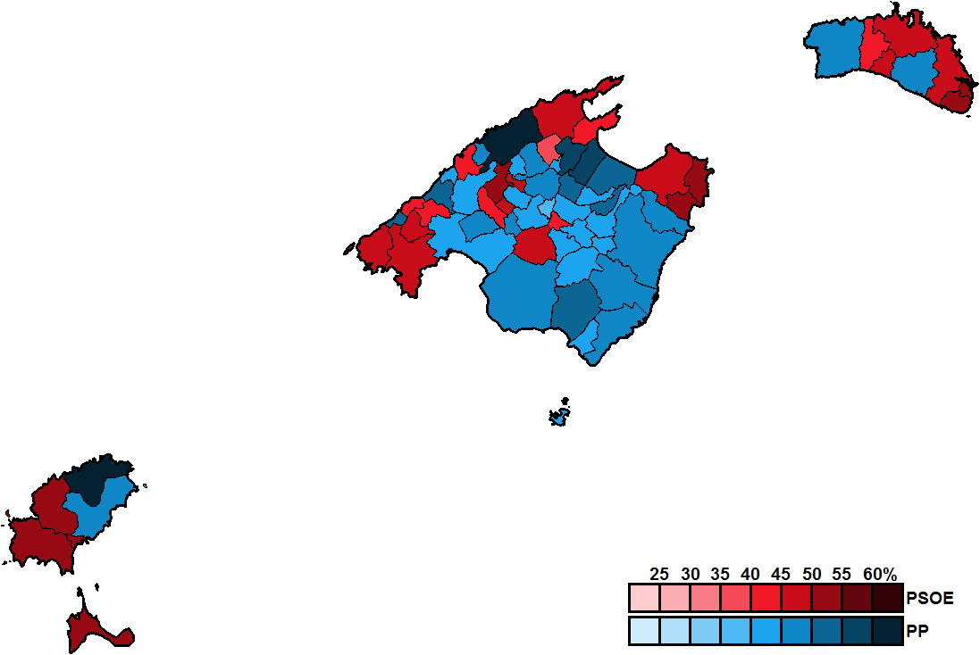 Most-voted party in Balearic Islands municipalities, showing vote share obtained, in the Spanish general election, 2008.